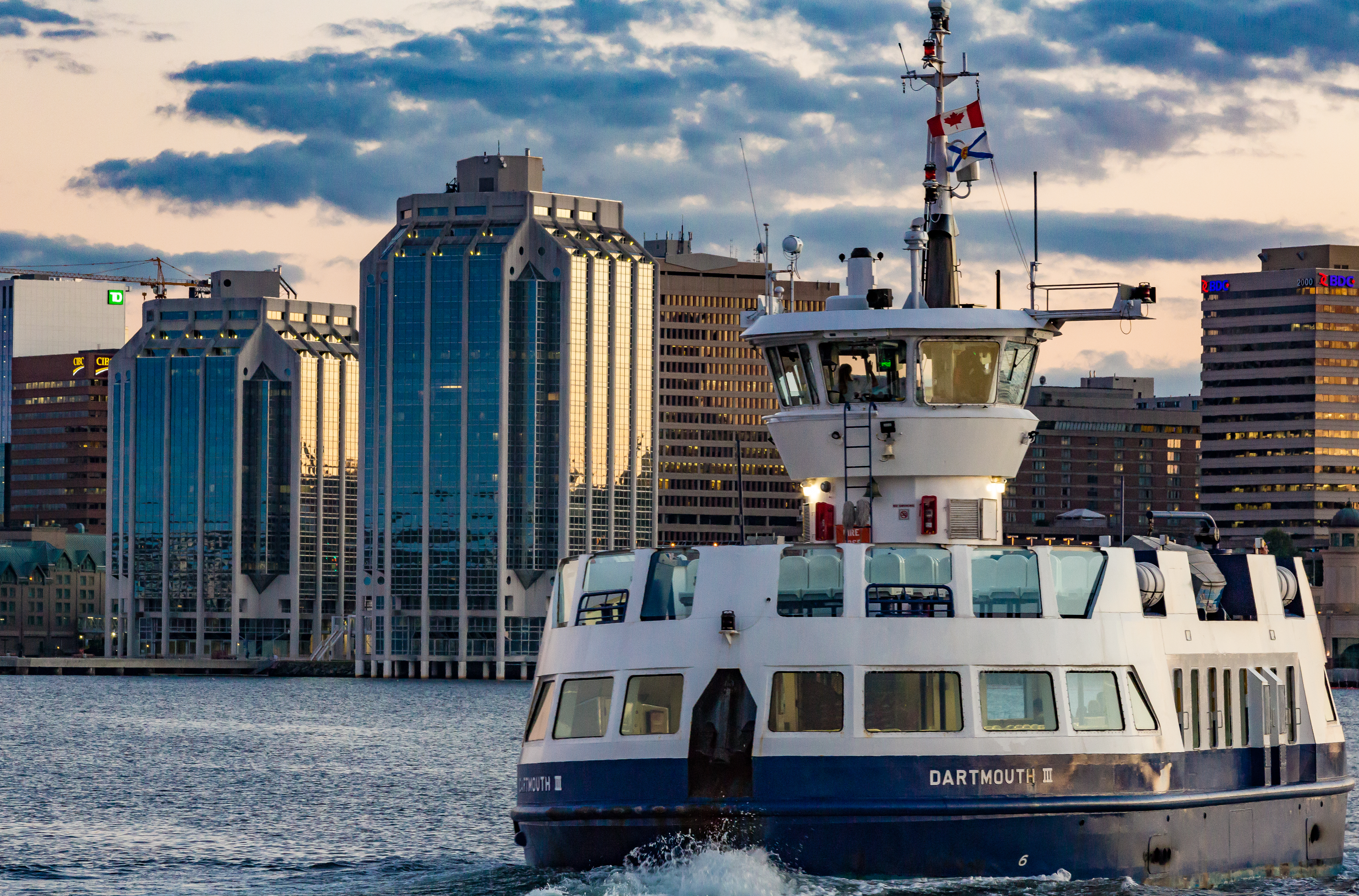 Dartmouth III ferry boat (VC9827 / IMO 7801776).